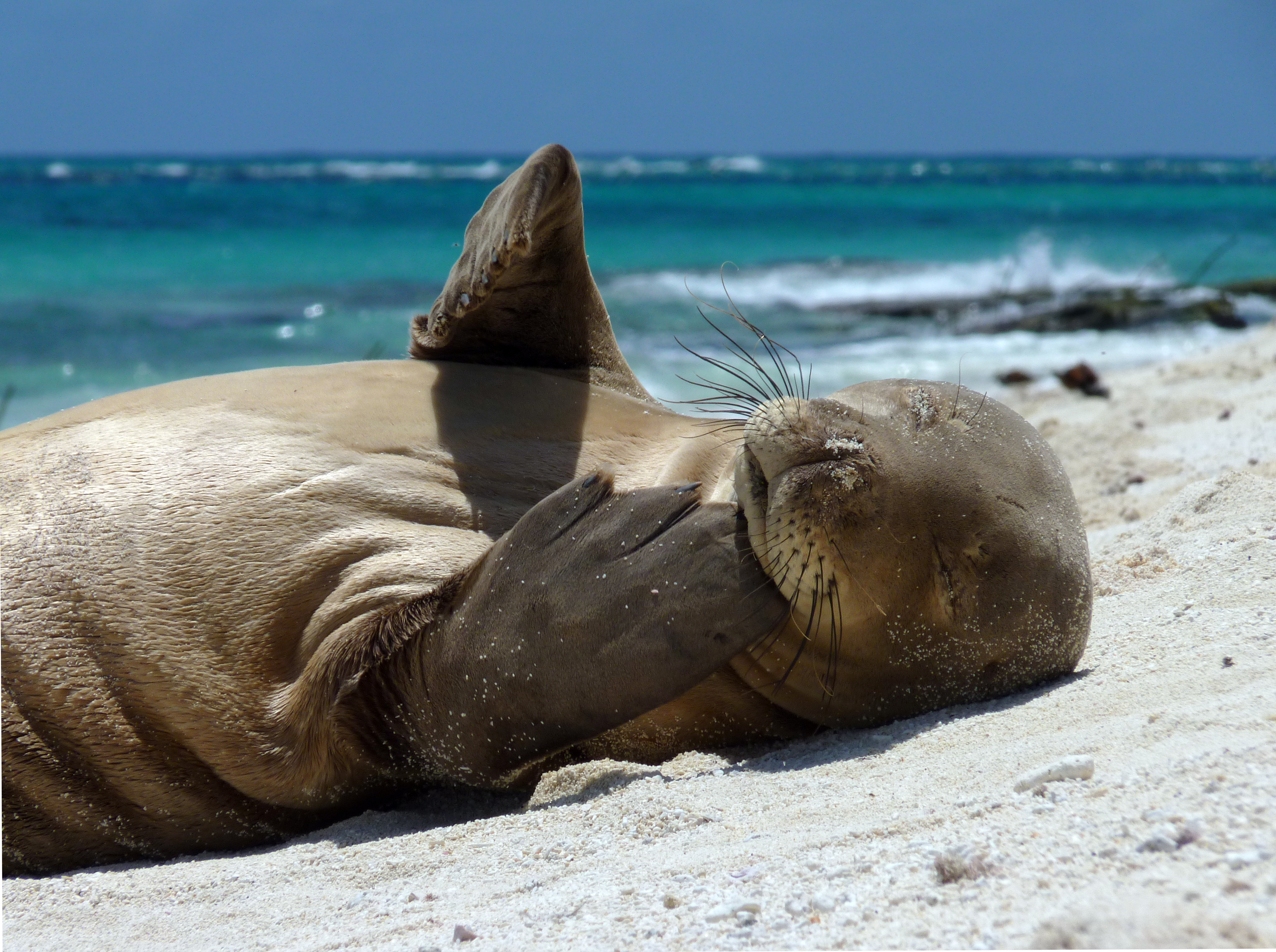 A juvenile Hawaiian monk seal scratching an itch on Tern Island, French Frigate Shoals